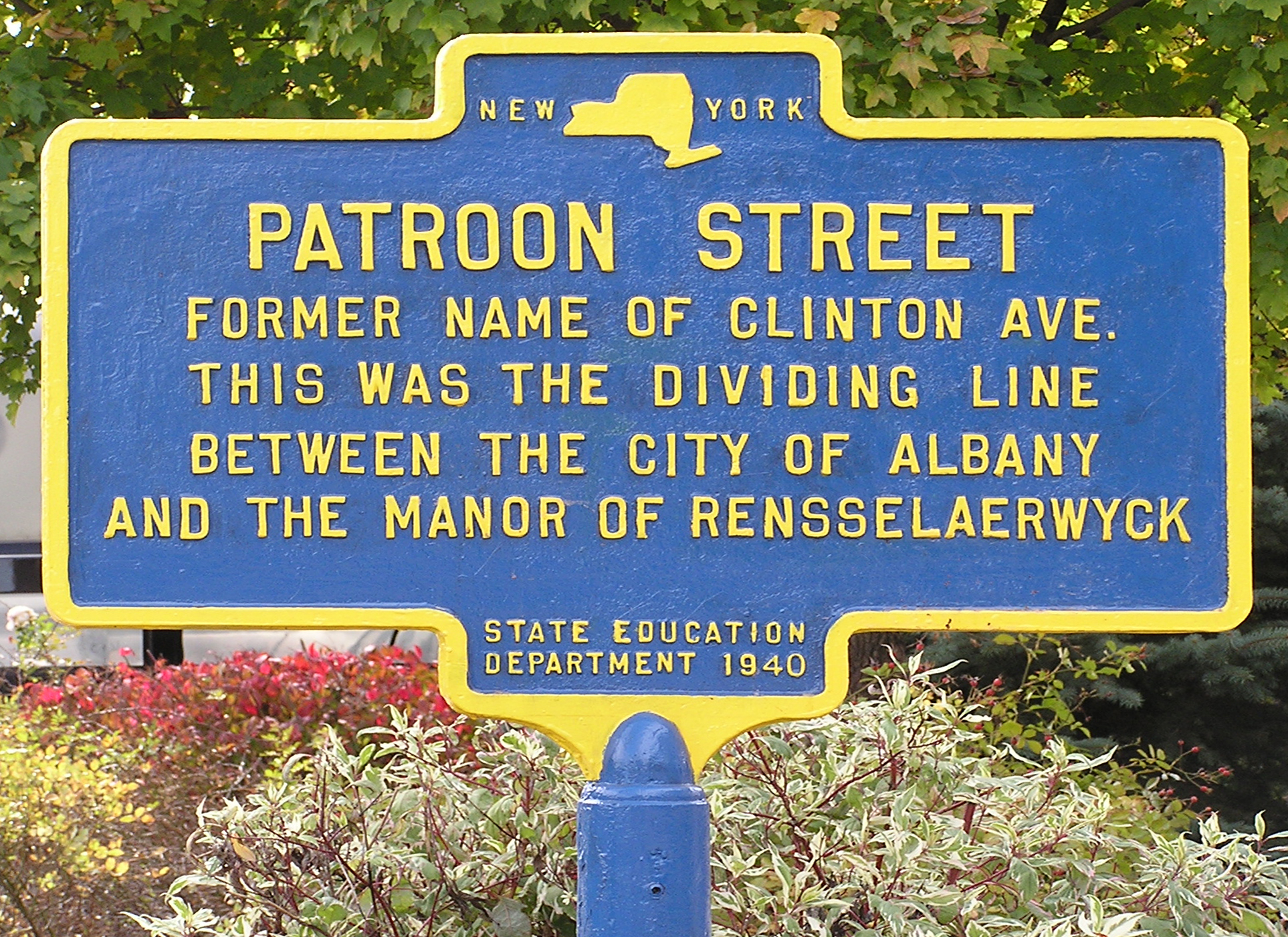 Location: Clinton Square (Pearl St.) Albany, New York N 42 39.24 W 73 44.99 Text: Patroon Street Former name of Clinton Ave. This was the dividing line between the City of Albany and the Manor of Rensselaerwyck State Education Department 1940